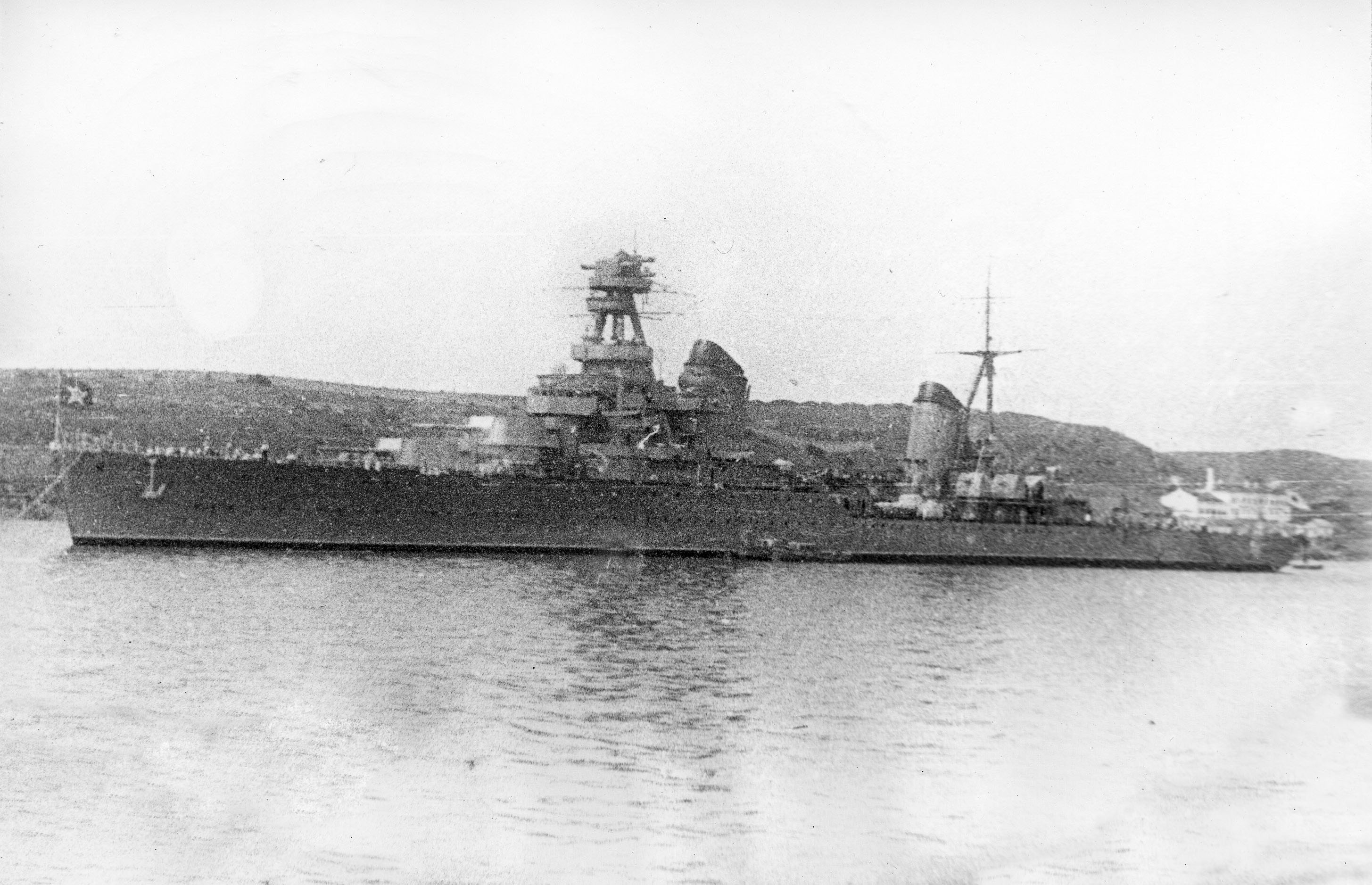 The Soviet cruiser Voroshilov, 20 June 1941.